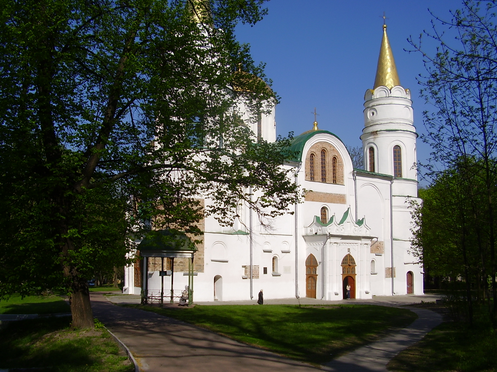 Cathedral Spaso-preobrazhensky in Chernihiv (Ukraine)